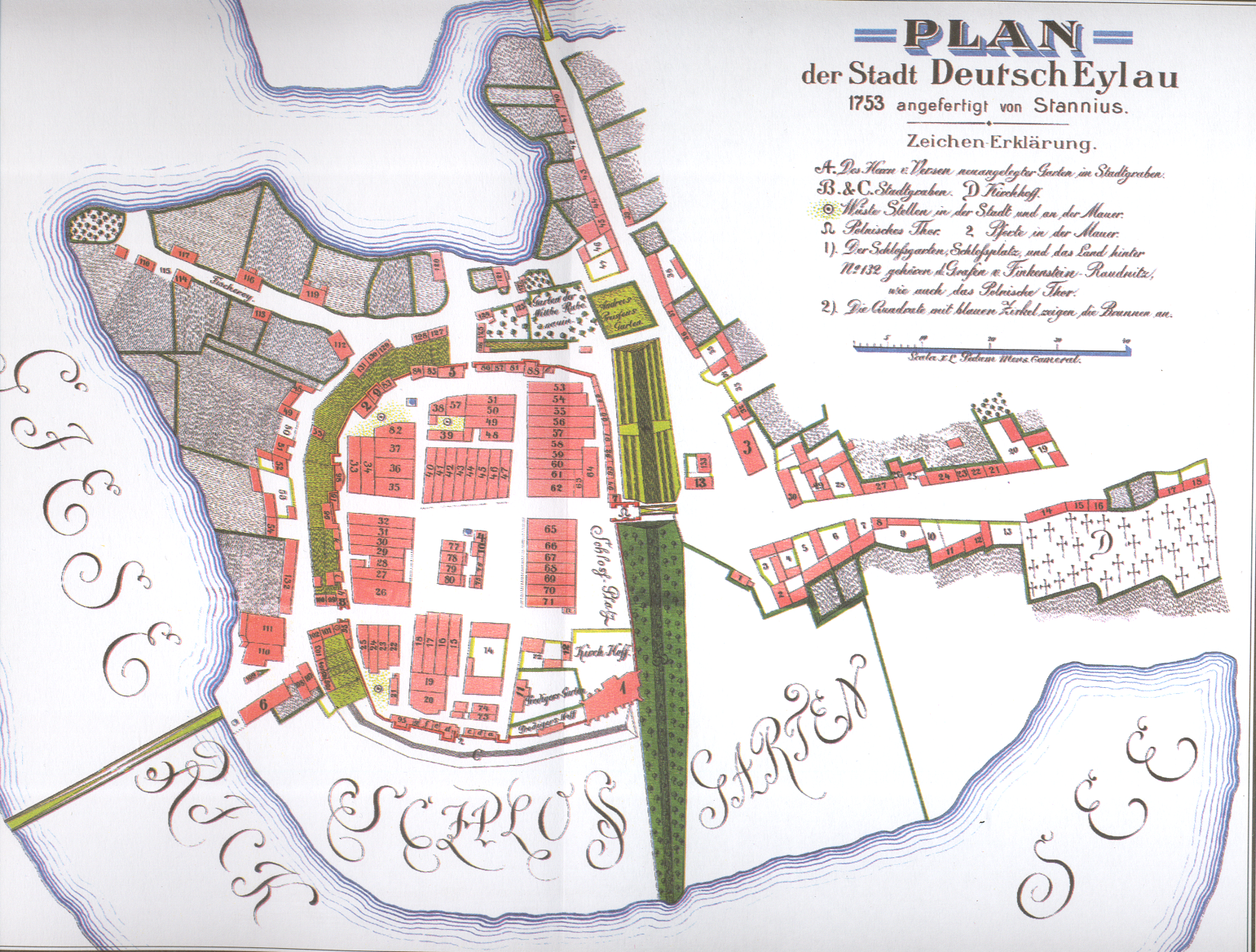 Legend